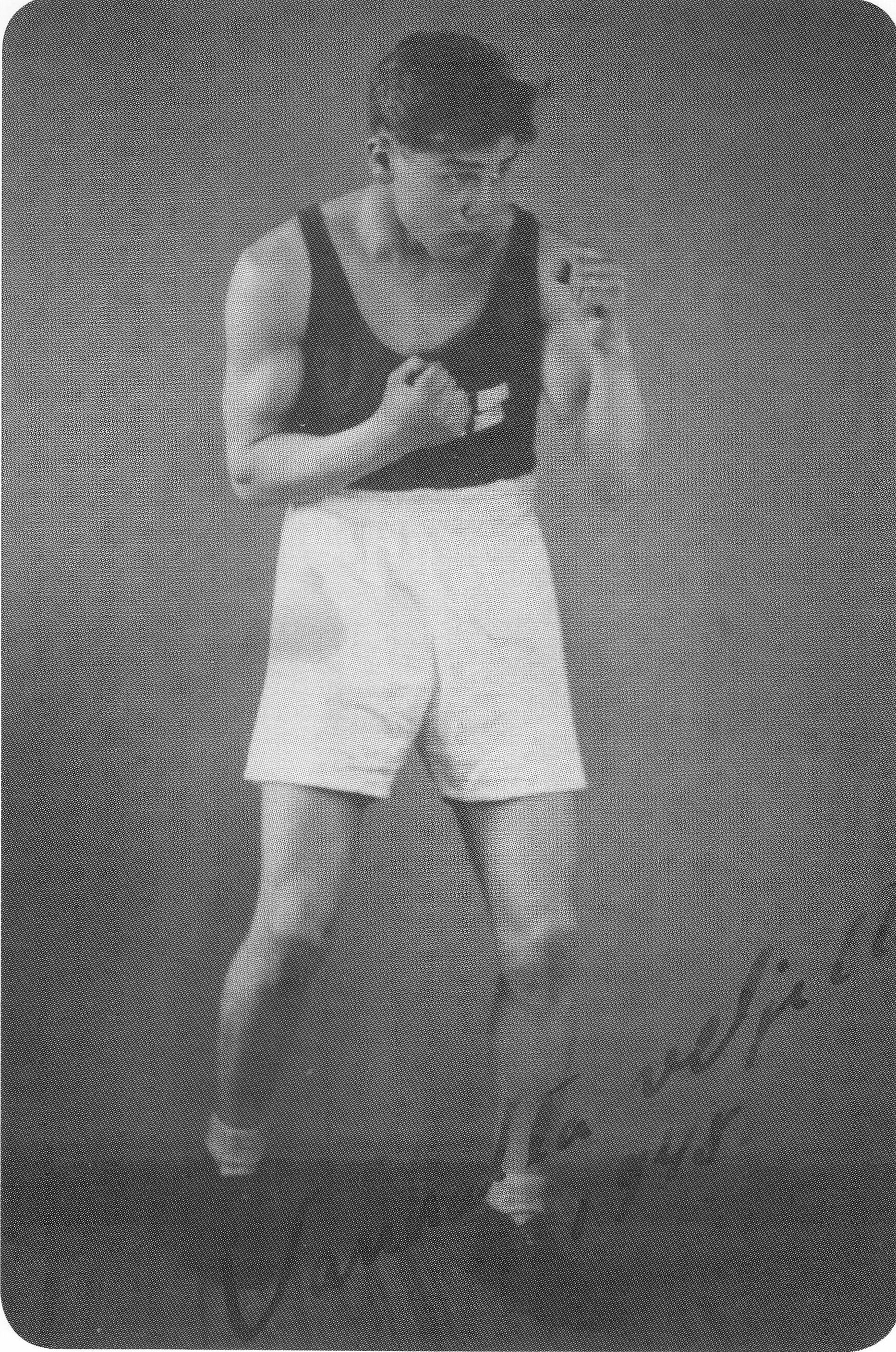 Helge Suominen, finnish boxing